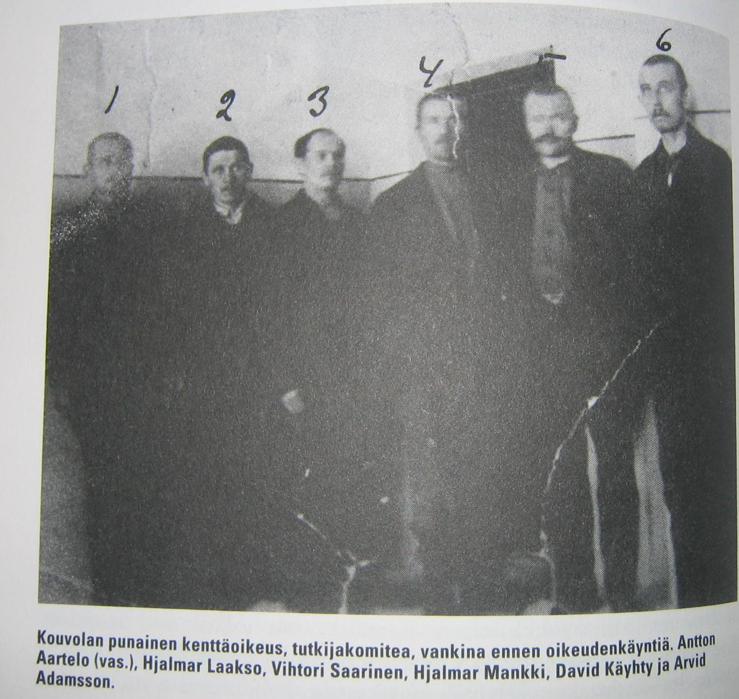 Finnish red murderers imprisoned.